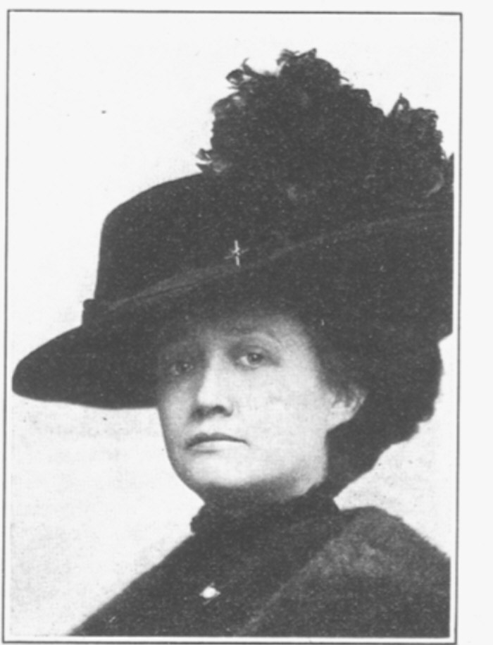 Photo of Ola Delight Smith. From Railroad Telegrapher, May 1911, 1018.